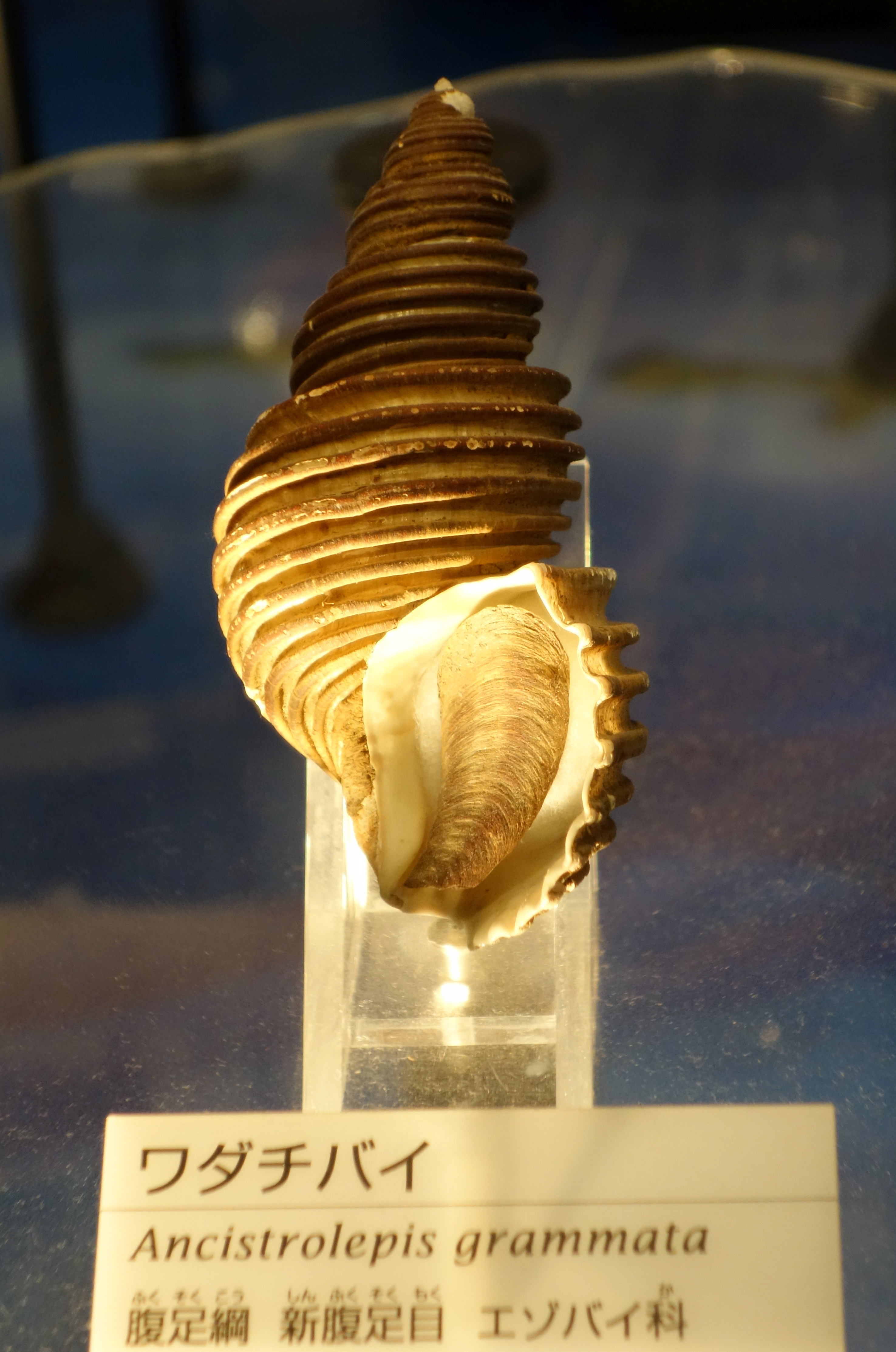 Exhibit in the National Museum of Nature and Science, Tokyo, Japan.